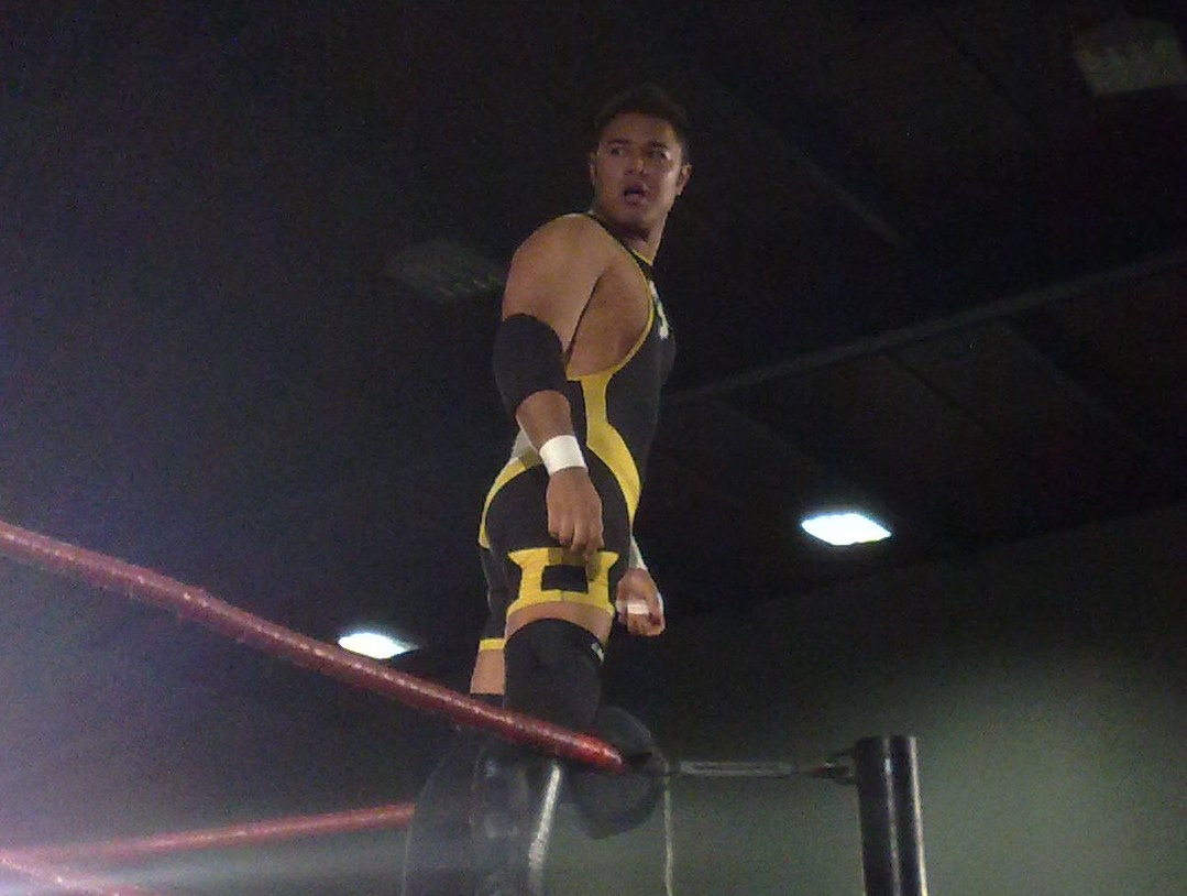 Professional wrestler Scott Lost on the turnbuckles at Pro Wrestling Guerrilla's Battle Of Los Angeles 2008 Night 2 show on November 2, 2008.